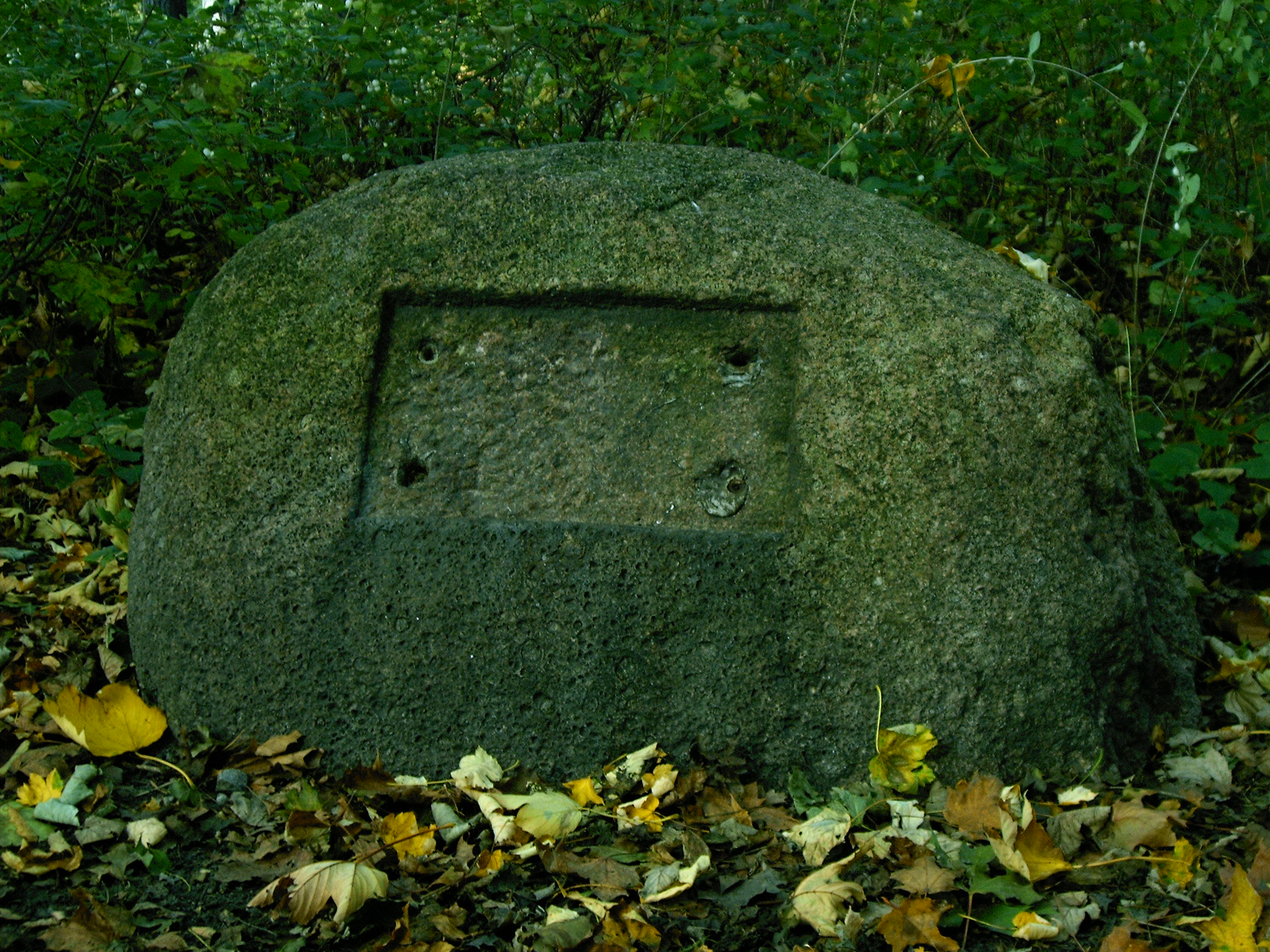 Memorial stone to former Wedding mayor Carl Leid at Rehberge park in Berlin-Wedding on Carl-Leid-Weg close to the Rathenau fountain. The commemorative plaque has been stolen in 2011/2012.